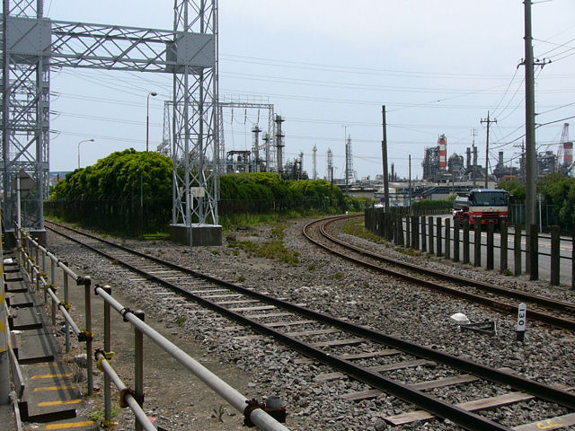 Ukishima-cho Station, Kanagawa Rinkai Tetsudo (Seaside railway of Kanagawa). Place: Ukishima-cho Station, Kawasaki Kawasaki Kanagawa, Japan.